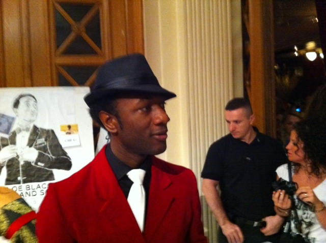 Zurich Kaufleuten